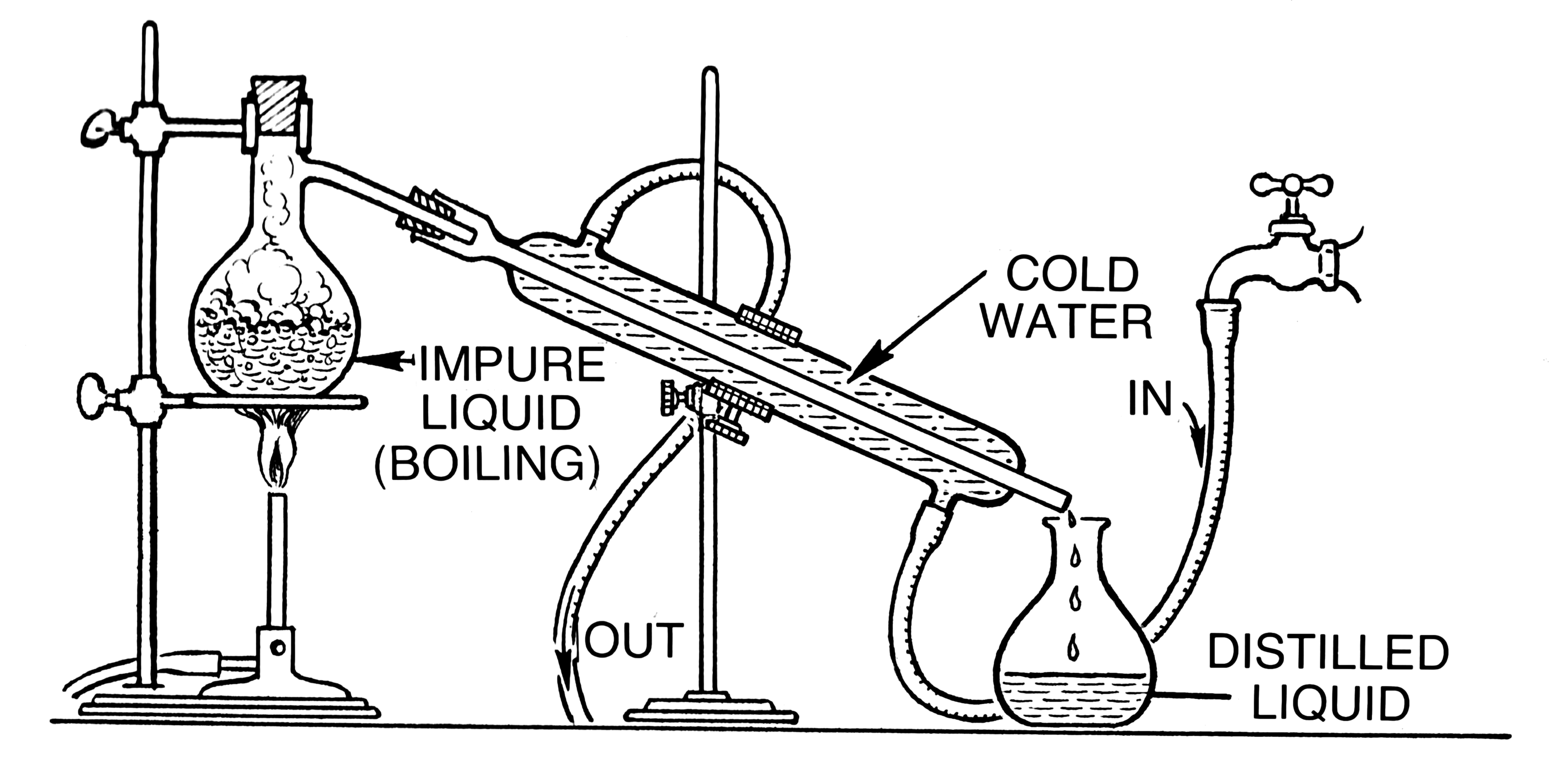 Line art drawing of a Toad